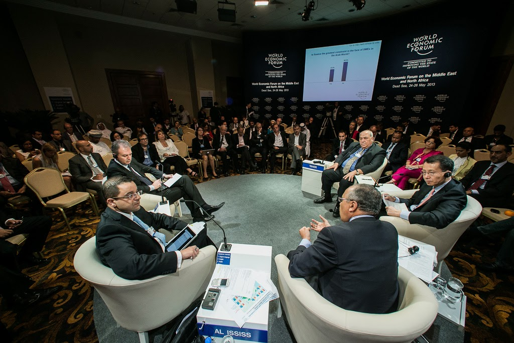 Al-Ississ Panel